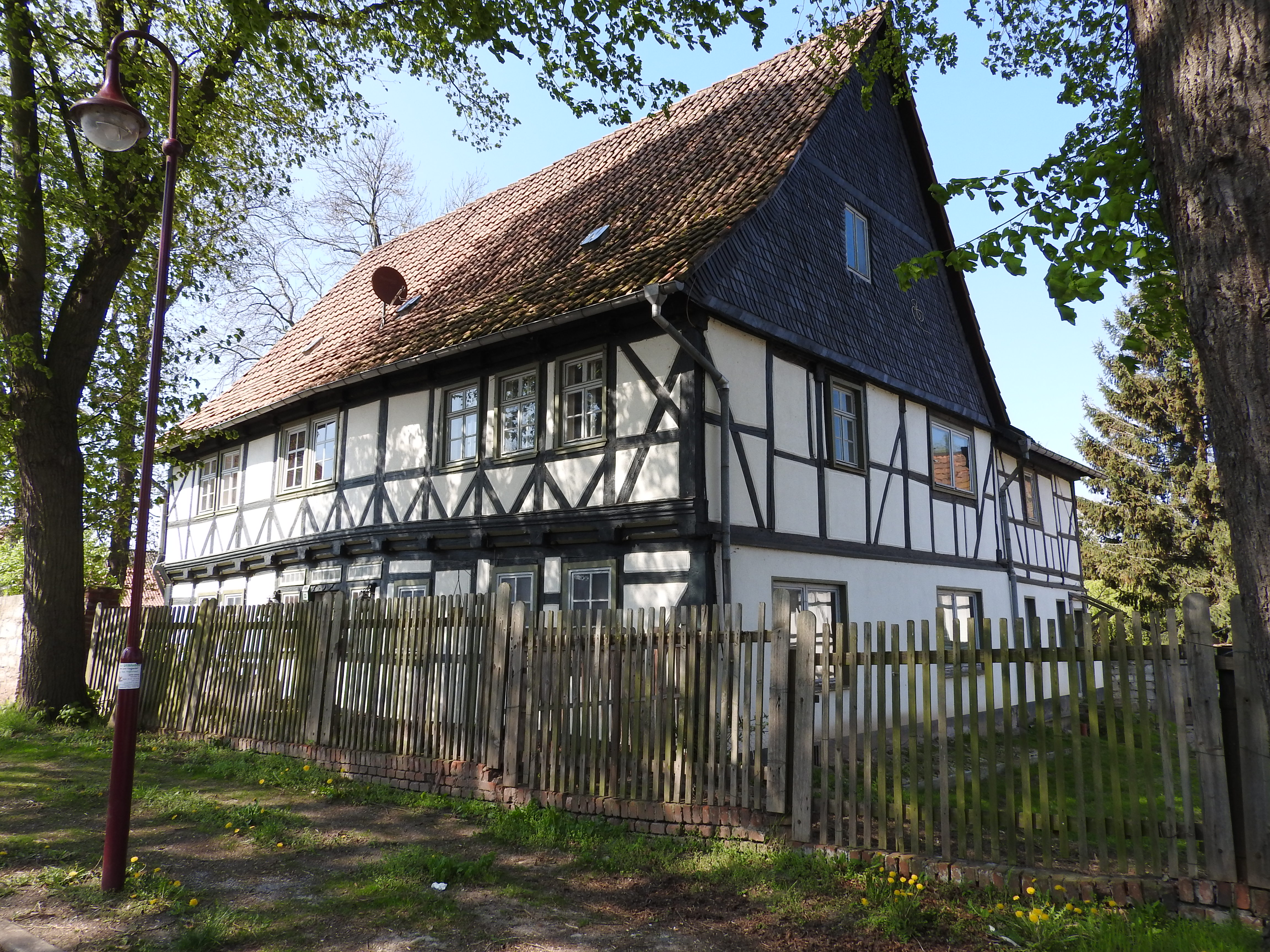 House in Nohra, Wipper, Thuringia, Germany